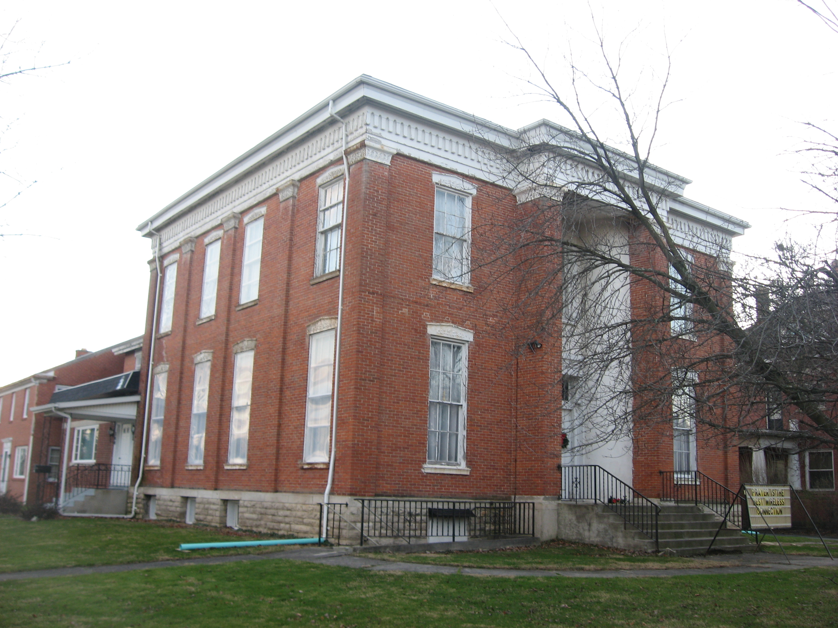 Front and eastern side of the Ralph P. Buckland House, located at 300 S. Park Avenue in Fremont, Ohio, United States. Built in 1853 as the home of U.S. Representative Ralph T. Buckland, it is listed on the National Register of Historic Places. No longer a house, it is presently the River of Life Church of God.